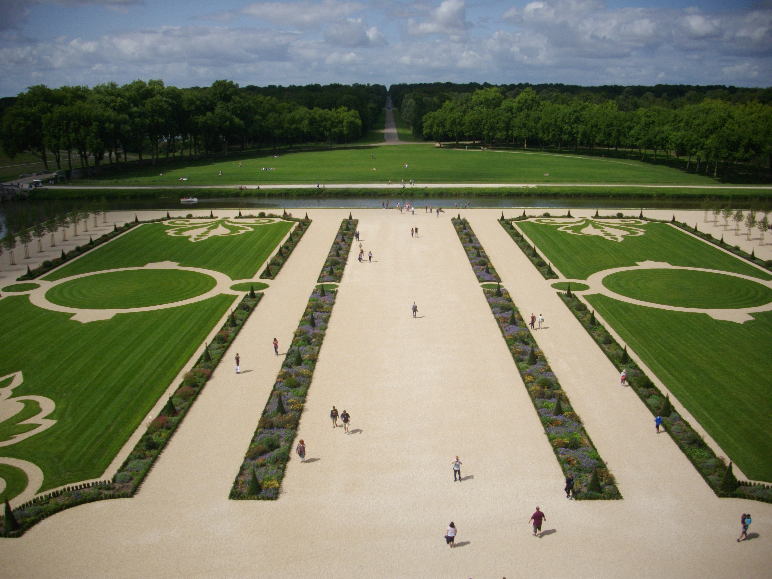 French gardens seen from the terraces of Chambord castle (Loir-et-Cher, France) .